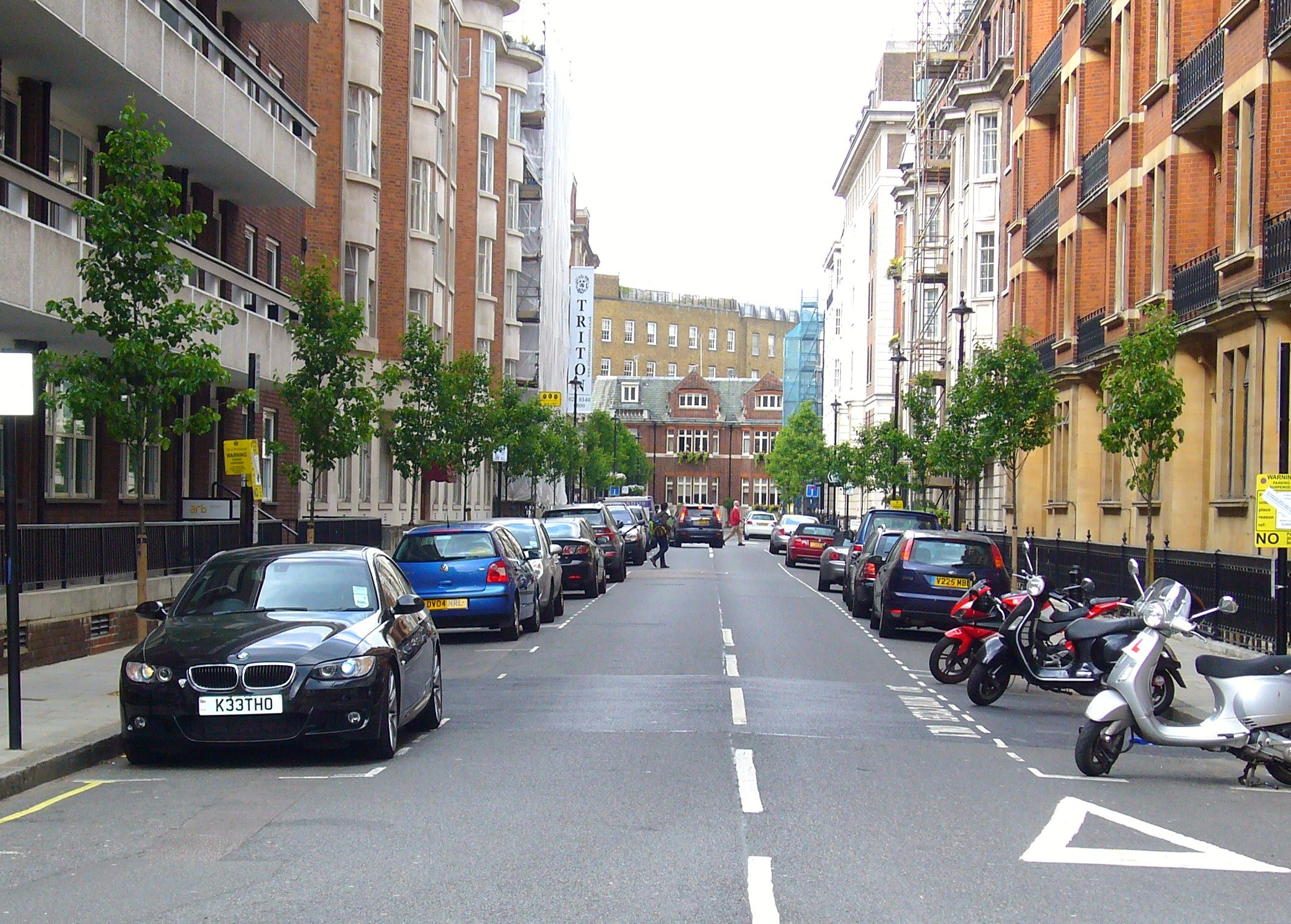 View South of Hallam Street in London near Weymouth House